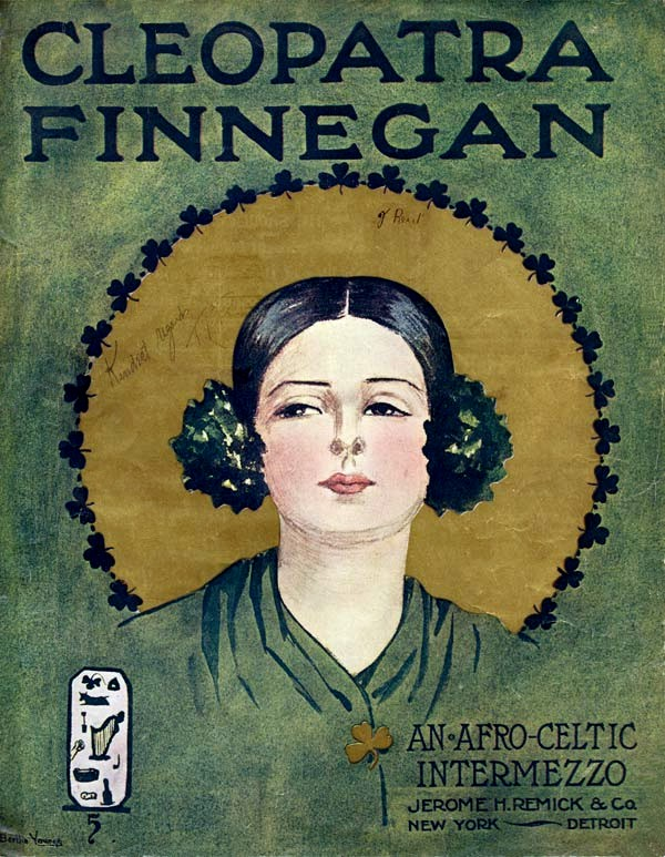 Sheet music cover for "Cleopatra Finnegan : an Afro-Celtic intermezzo", cover design by Bertha Youngs, publisher Jerome H. Remick